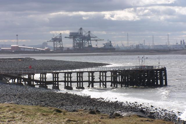 Pilots pier in Teesmouth at South Gare, taken from the Breakwater looking back towards Teesport.